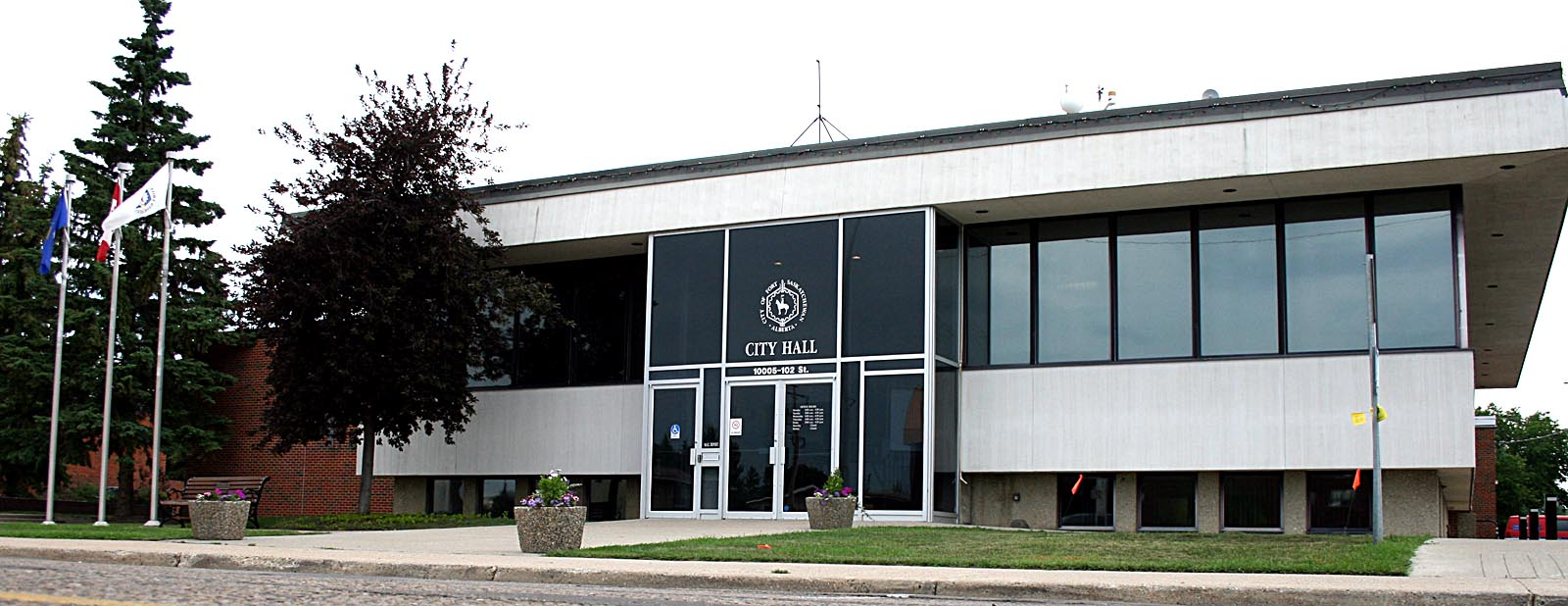 Fort Saskatchewan's two-floor city hall on 102nd Street.